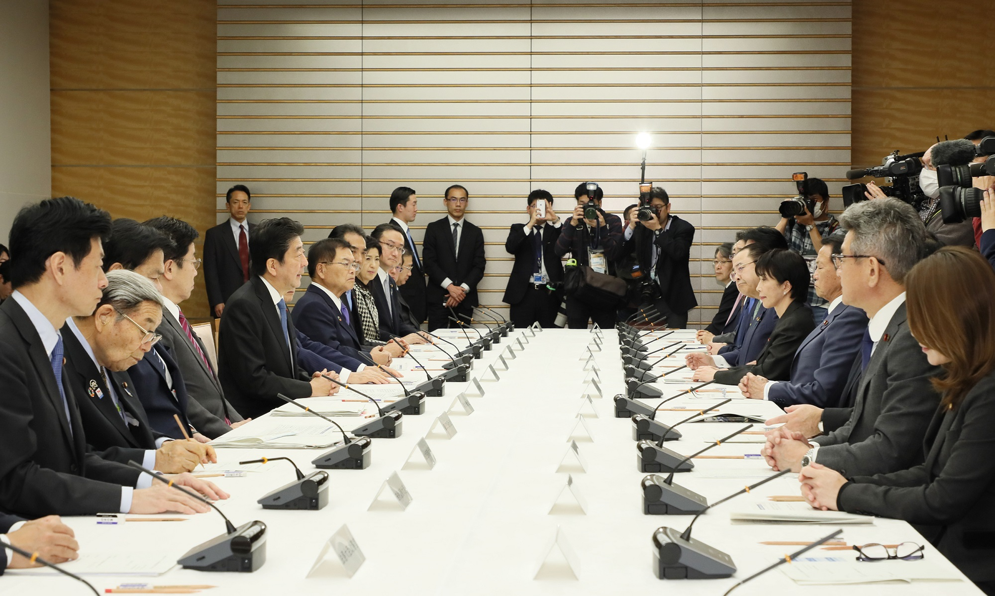 Shinzō Abe, Prime Minister, and the Ministers attended a meeting of the Novel Coronavirus Response Headquarters at the Prime Minister's Official Residence in Chiyoda Ward, Tōkyō Metropolis on February 16, 2020.